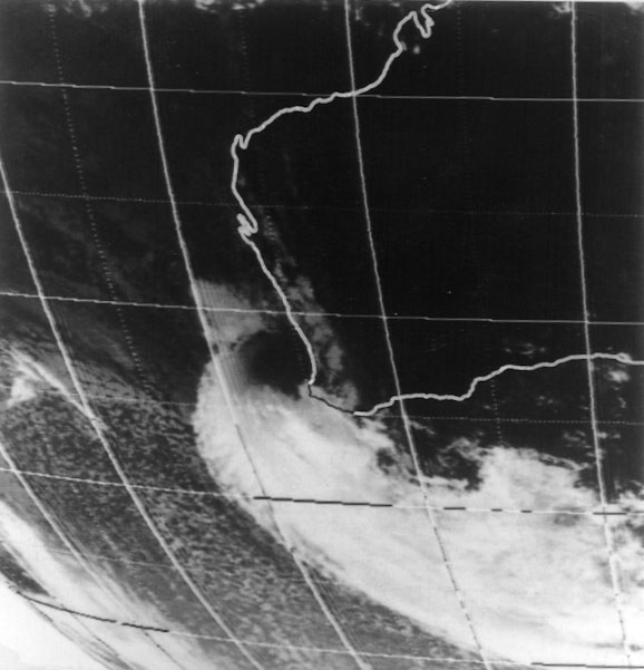 Satellite image of the remnants of Severe Tropical Cyclone Alby on 4 April 1978